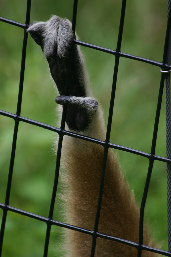 White-handed gibbon hand